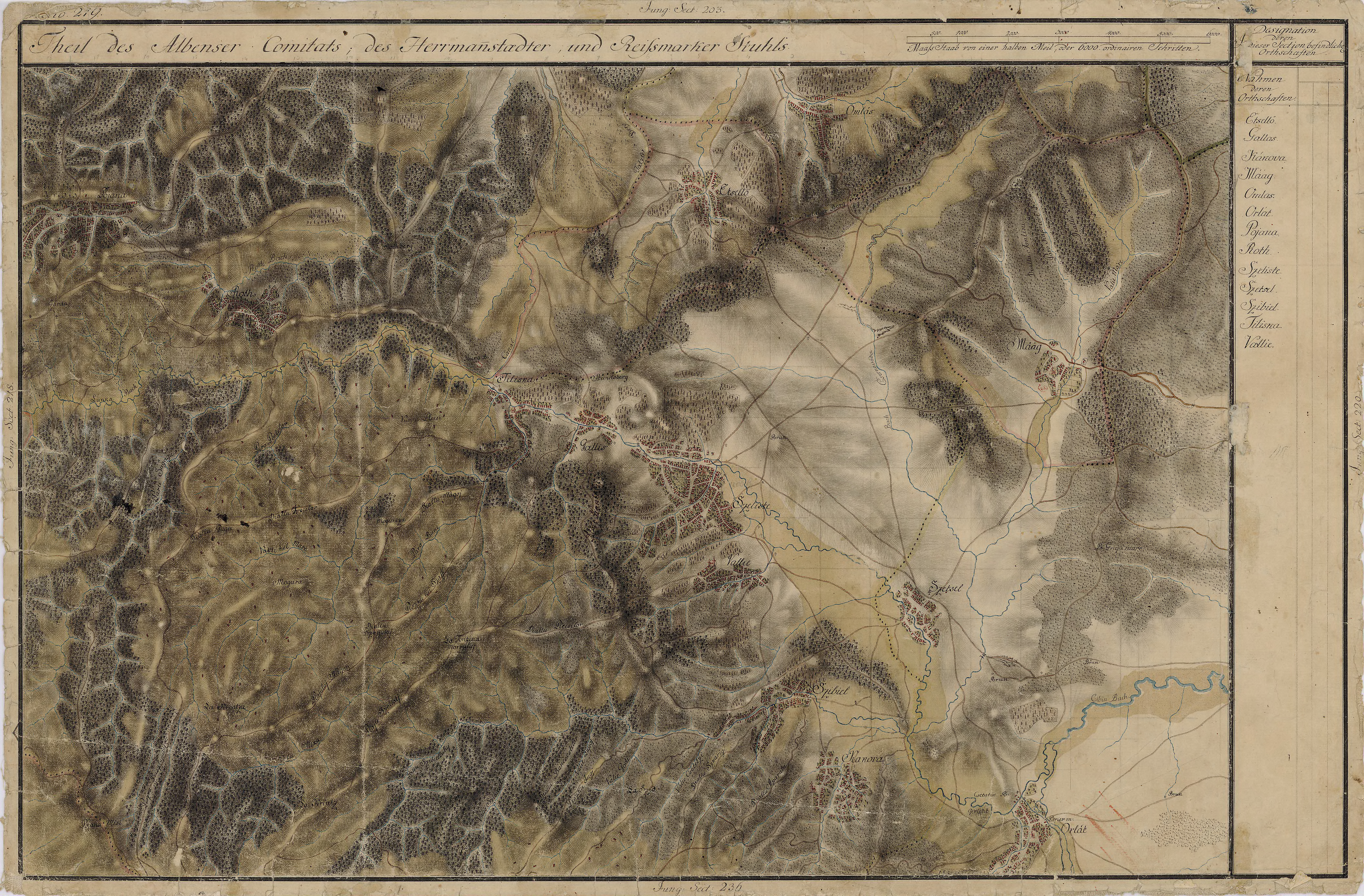 Grand Duchy of Transylvania, 1769-1773. Josephinische Landaufnahme pg.219